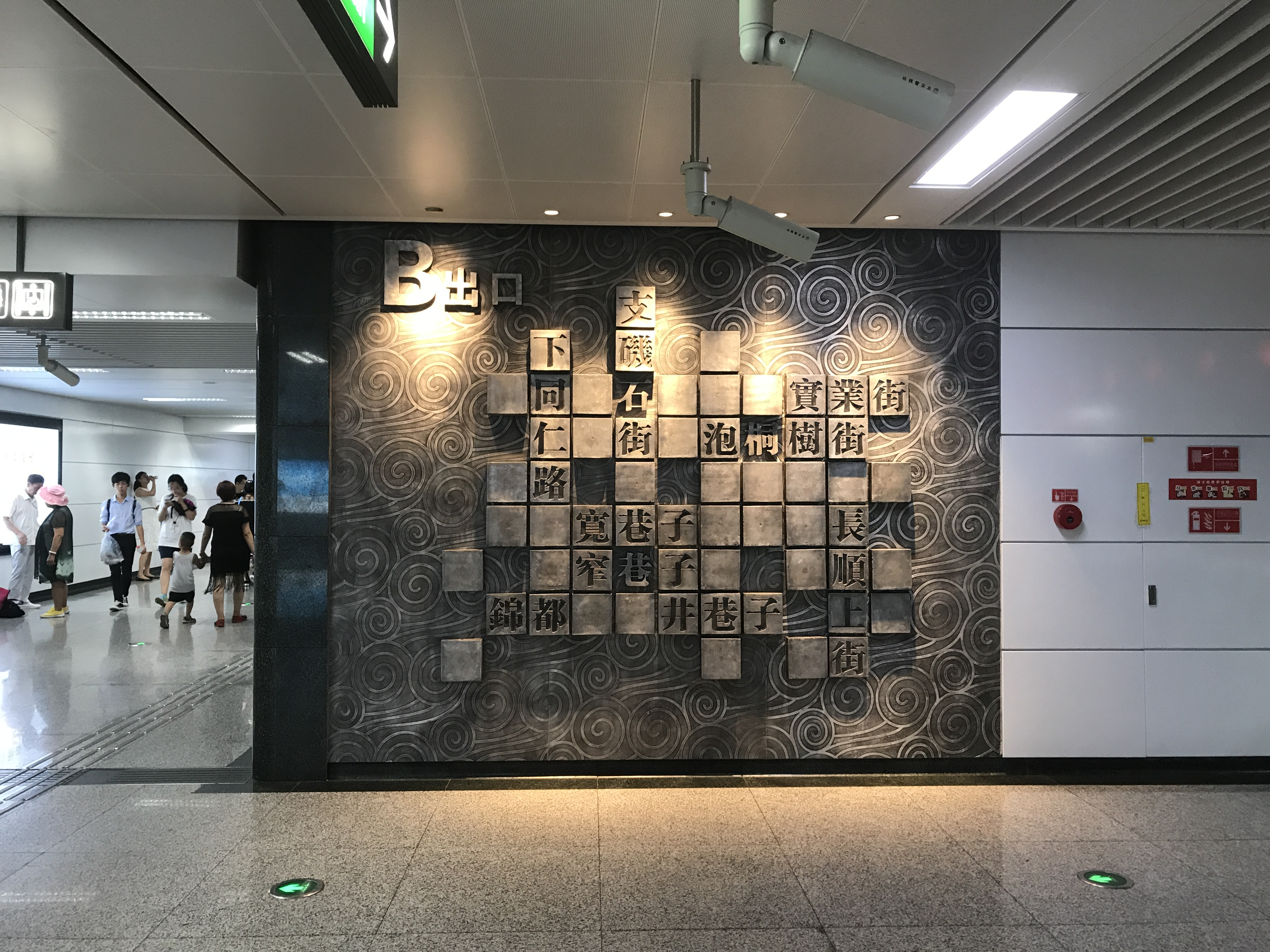 Artwall about the Name of Streets in Concourse of Kuanzhaixiangzi Alleys Station, Chengdu Metro